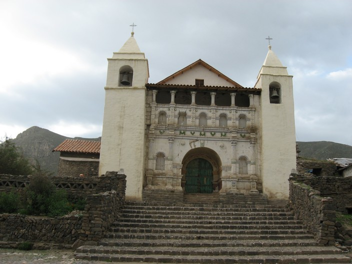 Temple Santiago Apostol de Caporaque, Chivey Peru